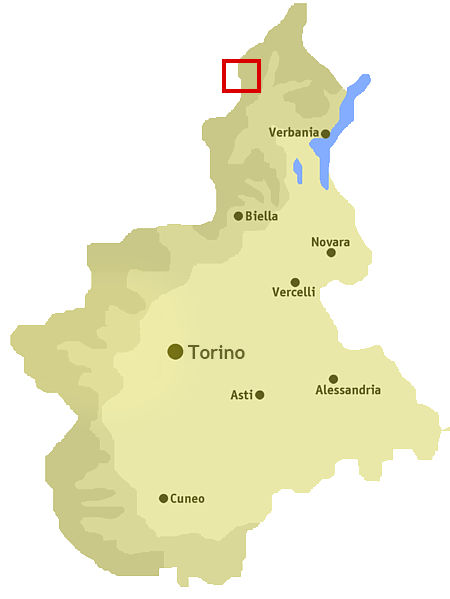 Position of the valley Val Divedro